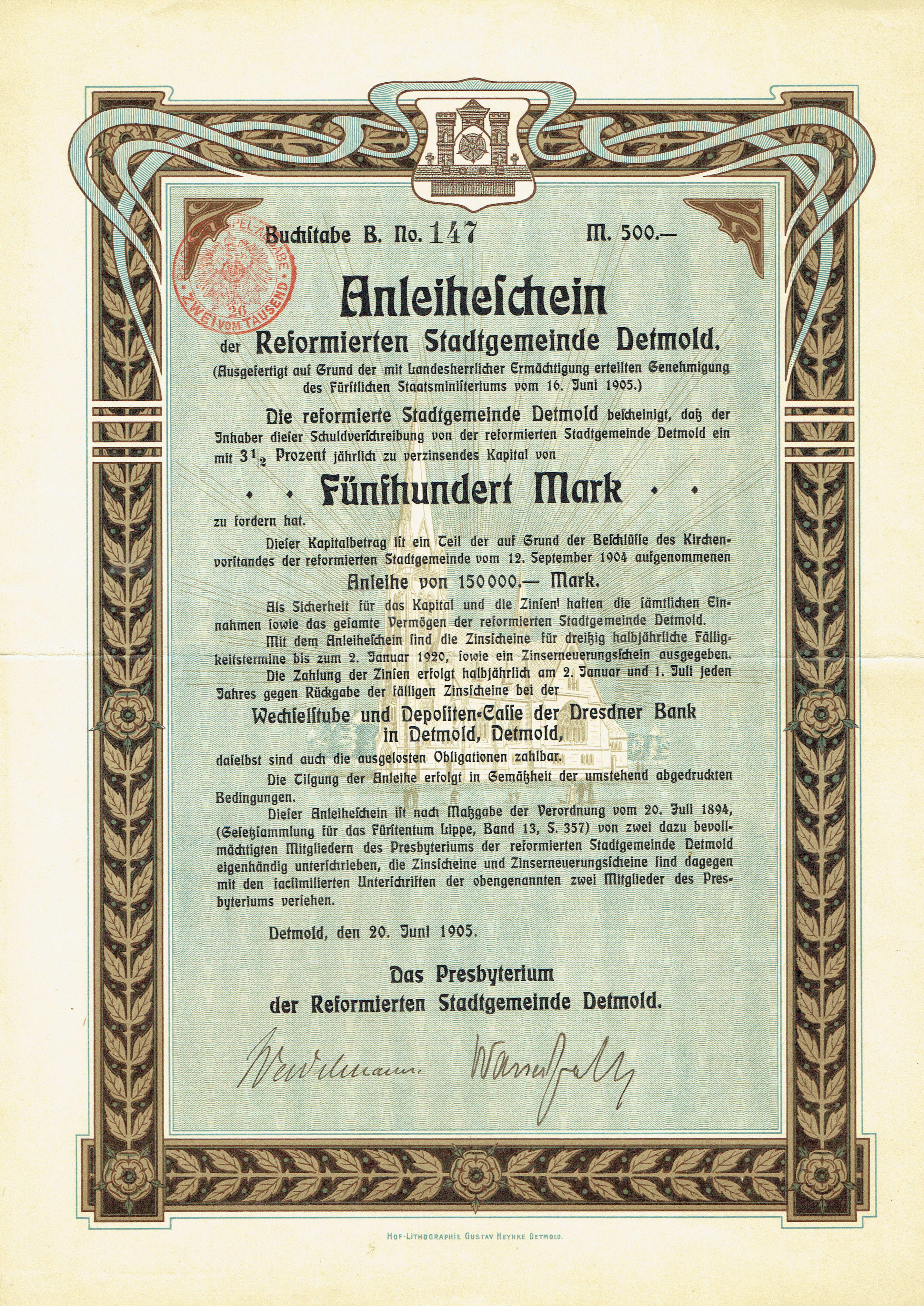 Bond of the Reformed Congregation in Detmold, issued 20. June 1905